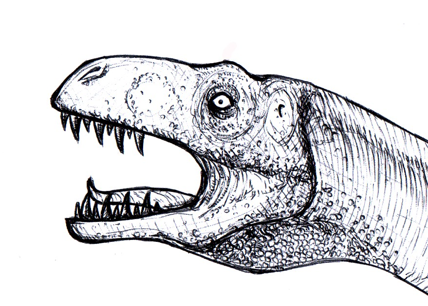 Drawing of a Gasosaurus head